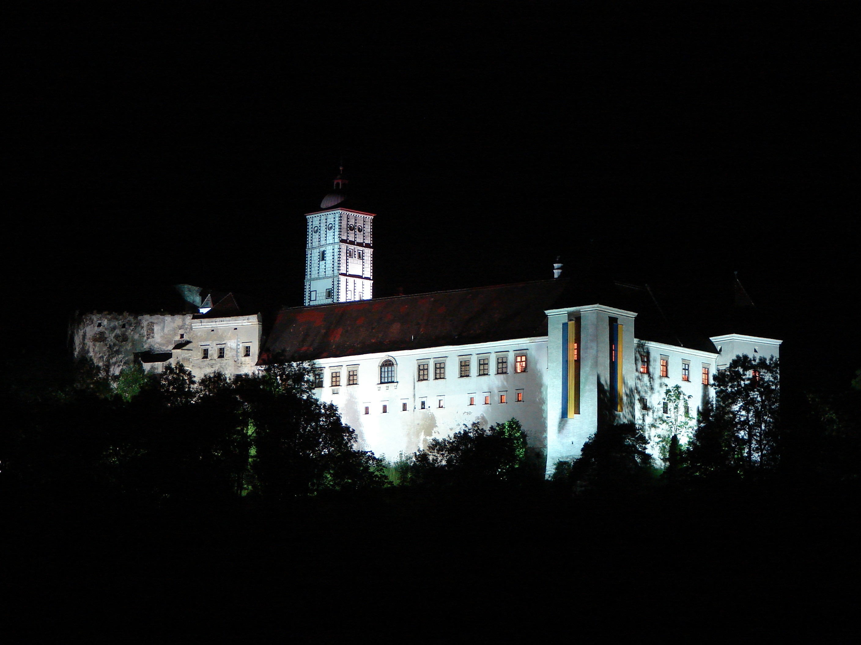 Schallaburg Castle in Lower Austria seen at night from northeast.